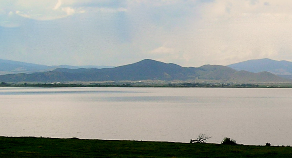 Lake Helena, photo taken from east side on Lake Helena Drive, looking west toward Scratchgravel Hills